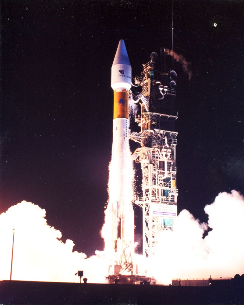 Launch of the Intelsat 703 communications satellite aboard an Atlas IIAS (AC-111) rocket in 1994. SDASM.CATALOG: 08_001906 FILE NAME: 08_01906 SDASM.TITLE: Intelsat 111 Atlas Centaur SDASM.MEDIA: Glossy Photo SDASM.DIGITIZED: Yes SDASM.SOCIAL MEDIA: SDASM.TAGS: Intelsat 111 Atlas Centaur PUBLIC COMMONS.SOURCE INSTITUTION: San Diego Air and Space Museum Archive